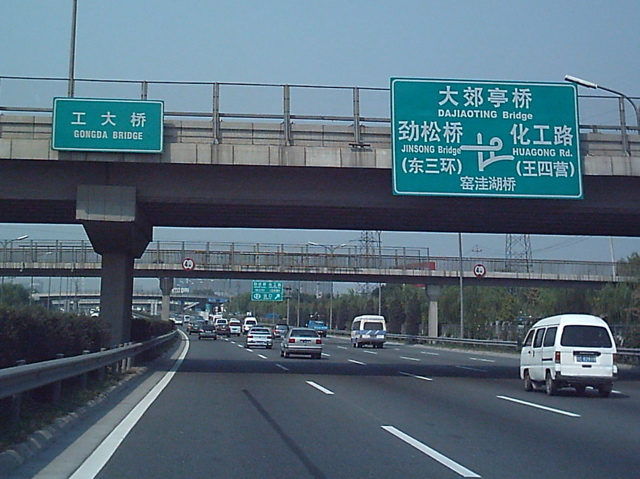 New 4th Ring Road Signs (2). Now standard with every exit: Schematic diagrams of the junction.